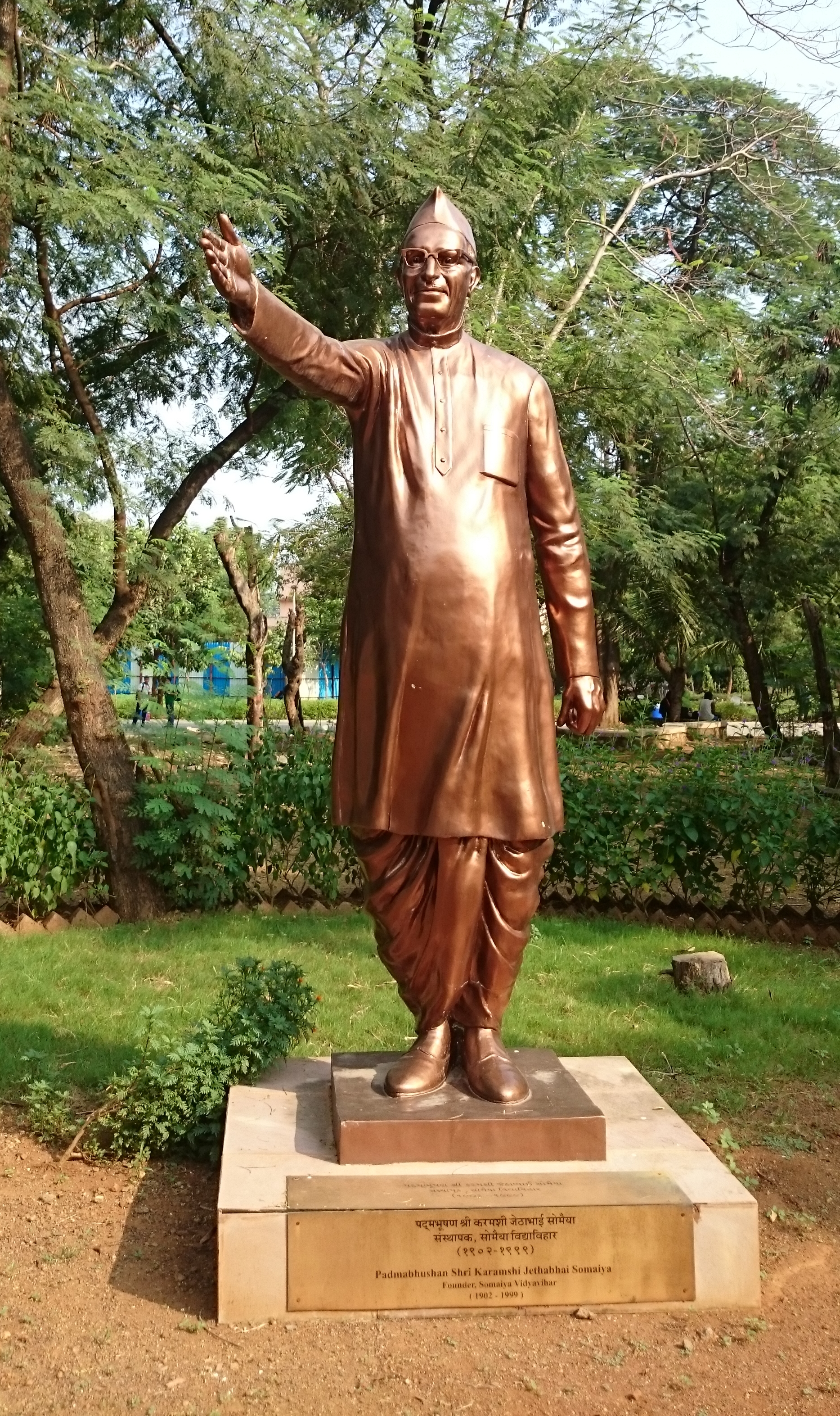 This is a image of Karamshi Jethabhai Somaiya's statue present in "Somaiya Vidyavihar Campus"